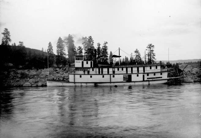 Steamer Chelan on Spokane River circa 1905.